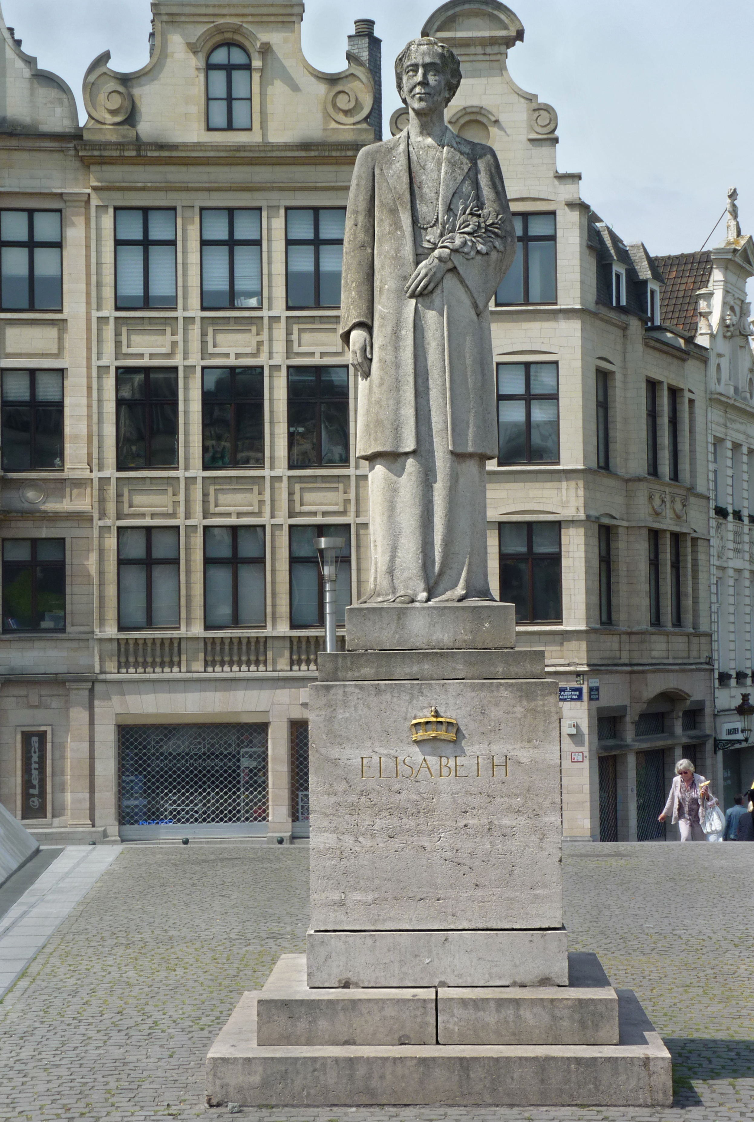 Statue of the queen Elisabeth on the "place de l'Albertine" in Brussels, Belgium.